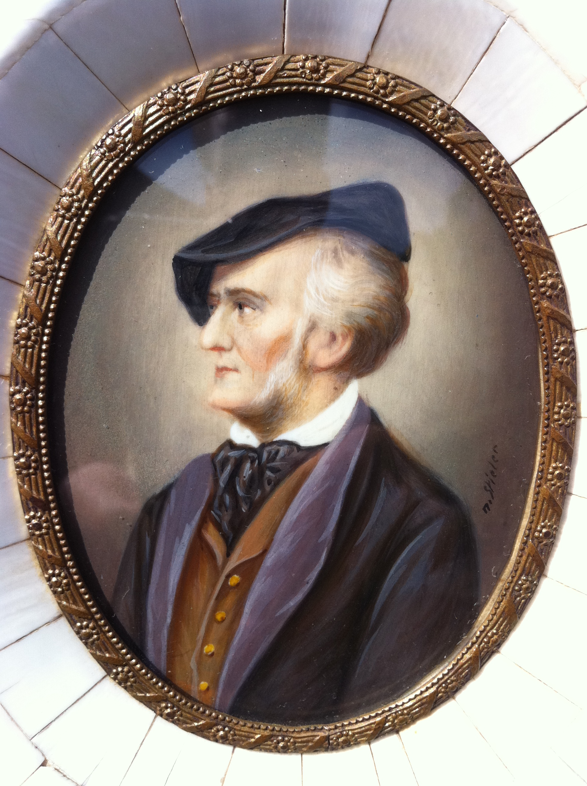 Painting by Stieler